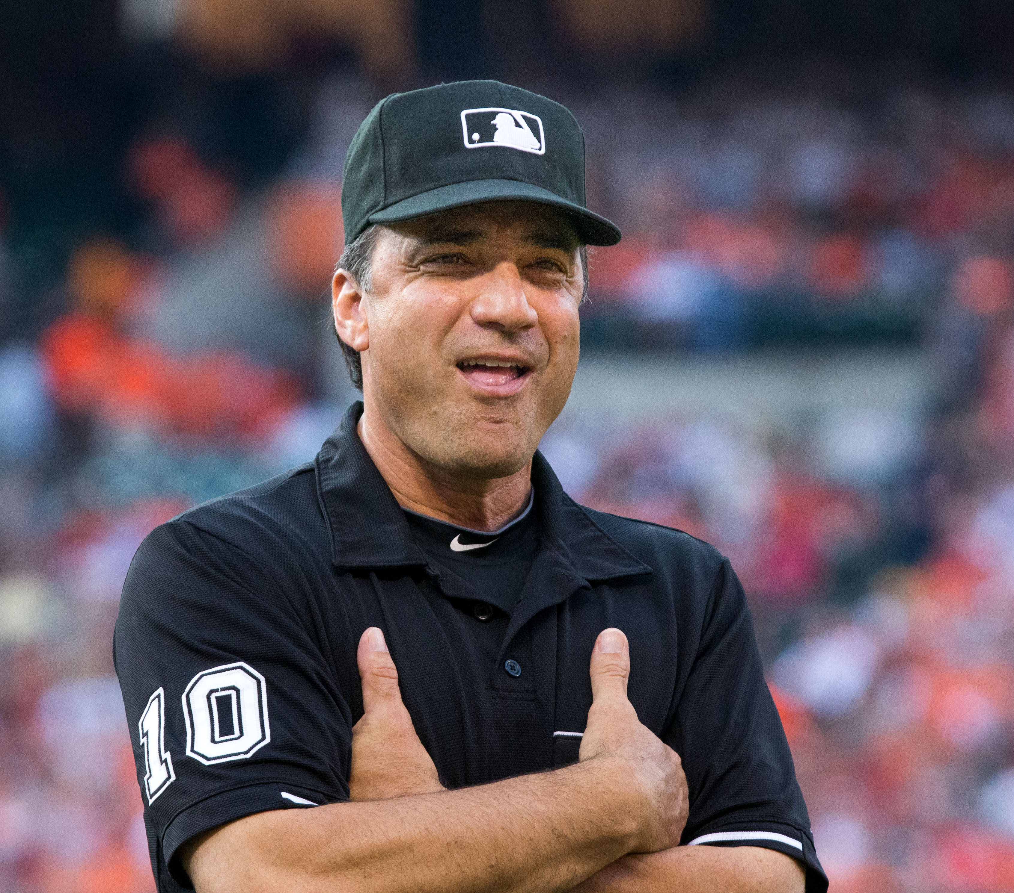 Washington Nationals at Baltimore Orioles May 30, 2013